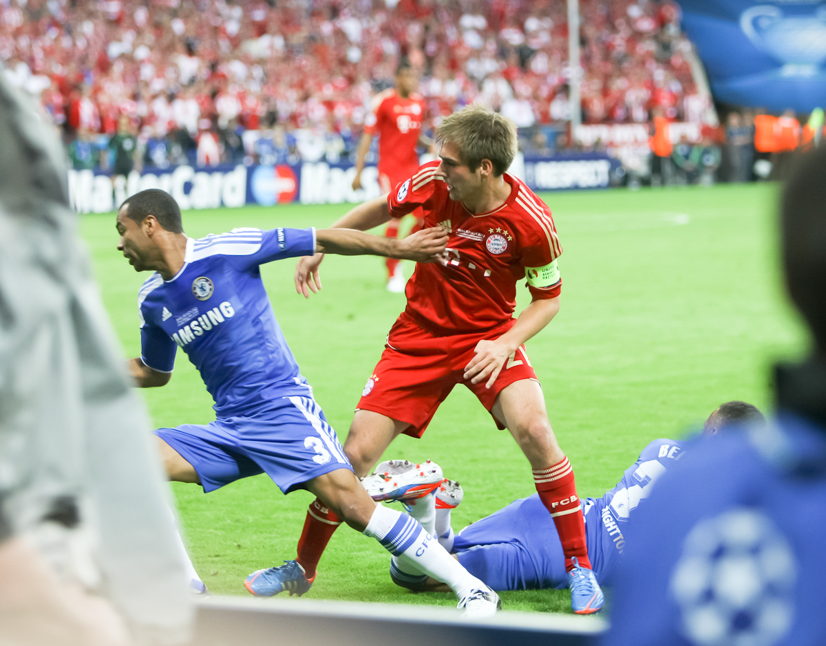 Ashley Cole and Philipp Lahm during the UEFA Champions League Final 2012